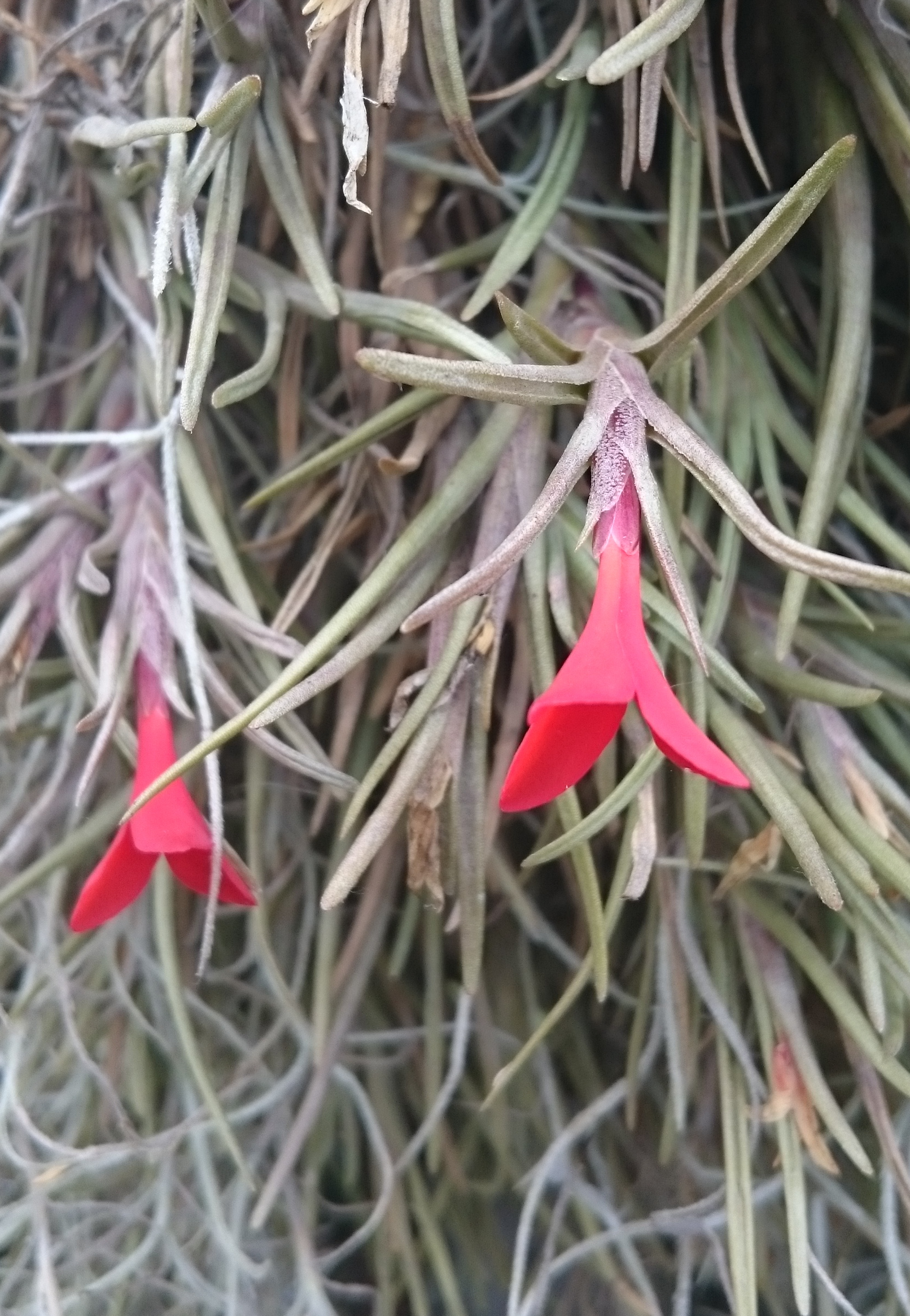 Tillandsia albertiana in Blüte